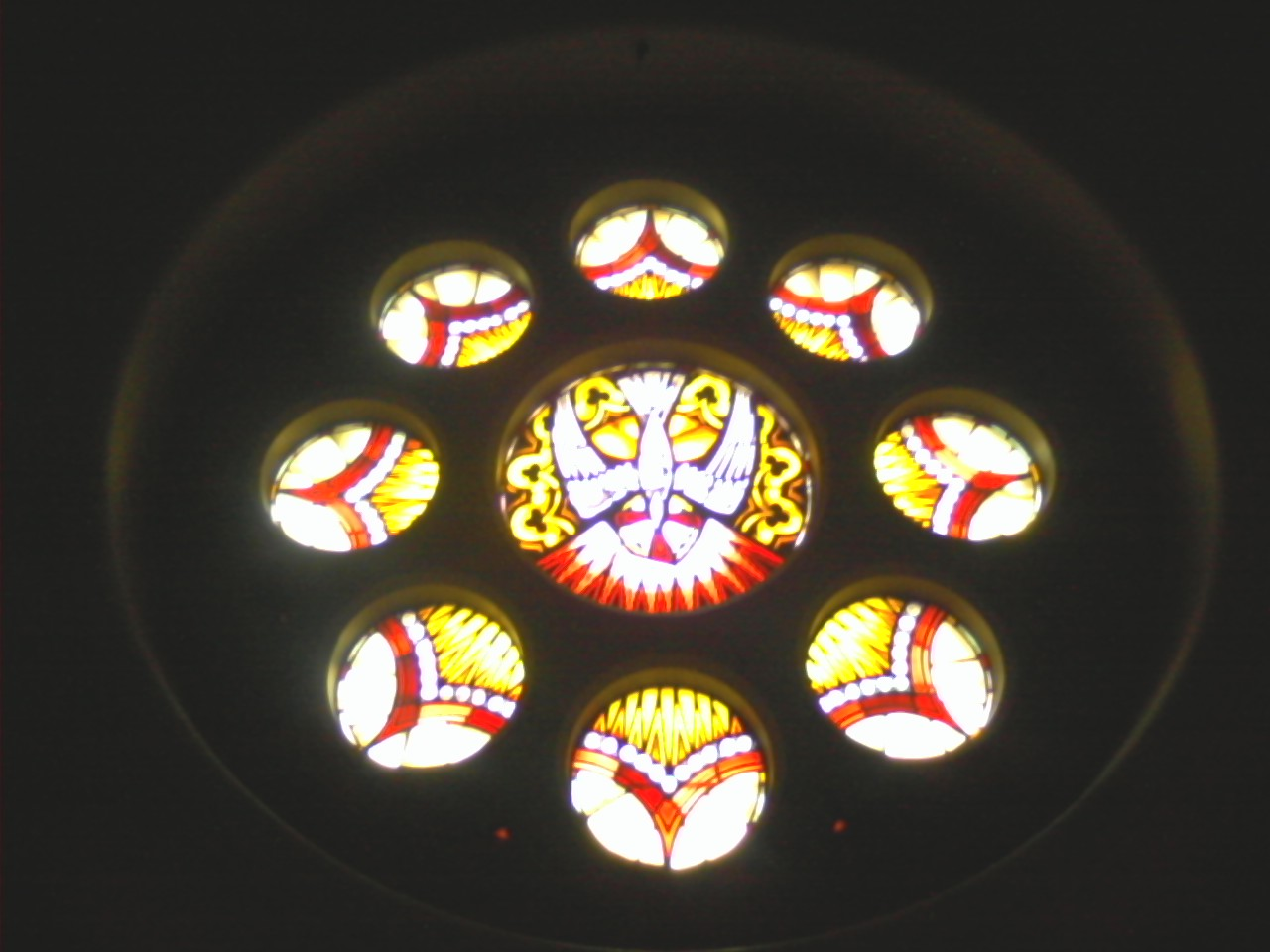 St. William Upper Church Rose Window.